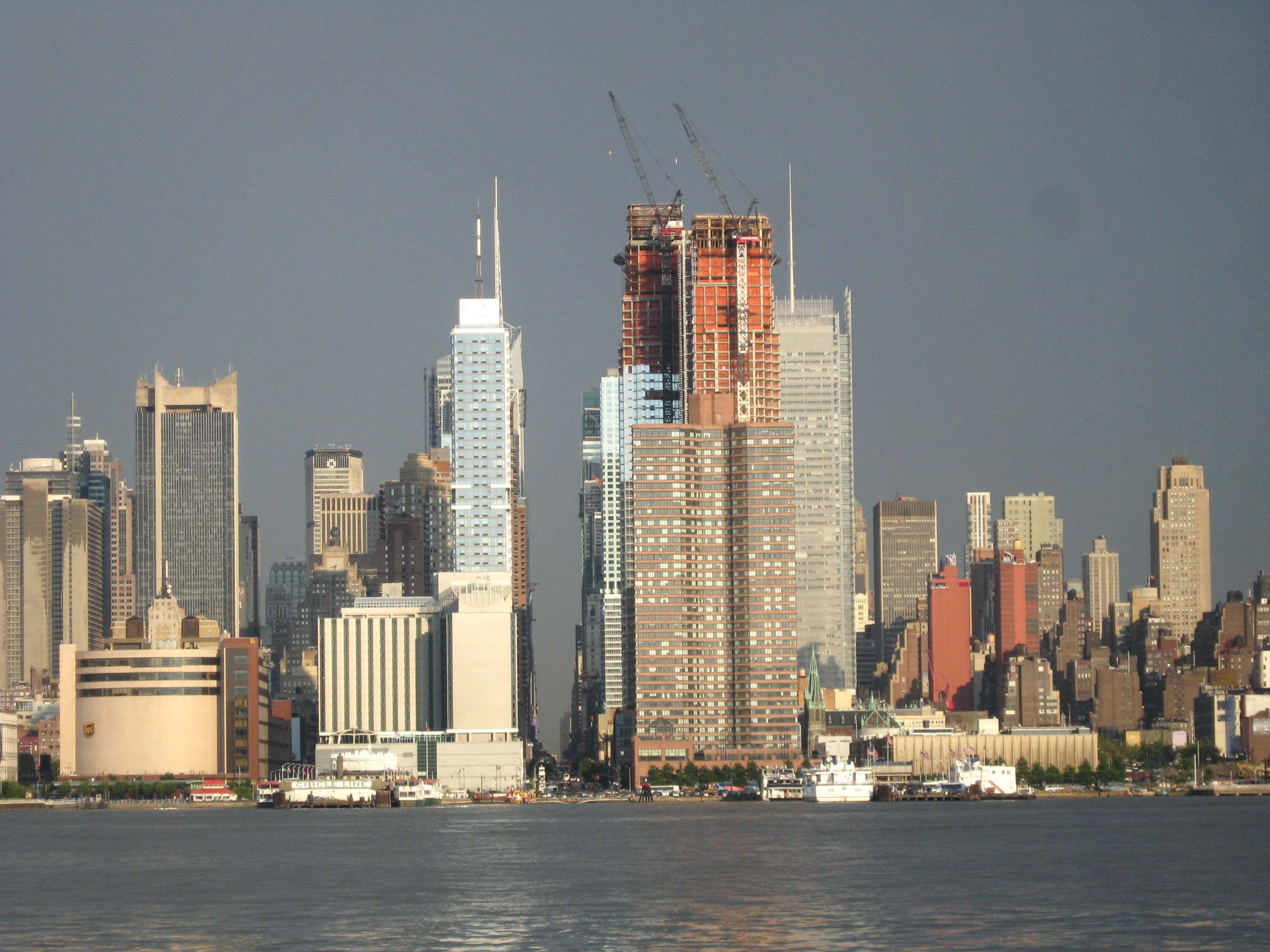 Looking up the street canyon of en:42nd Street (Manhattan) from a ferry approaching from New Jersey at the sunny end of a rainy day.